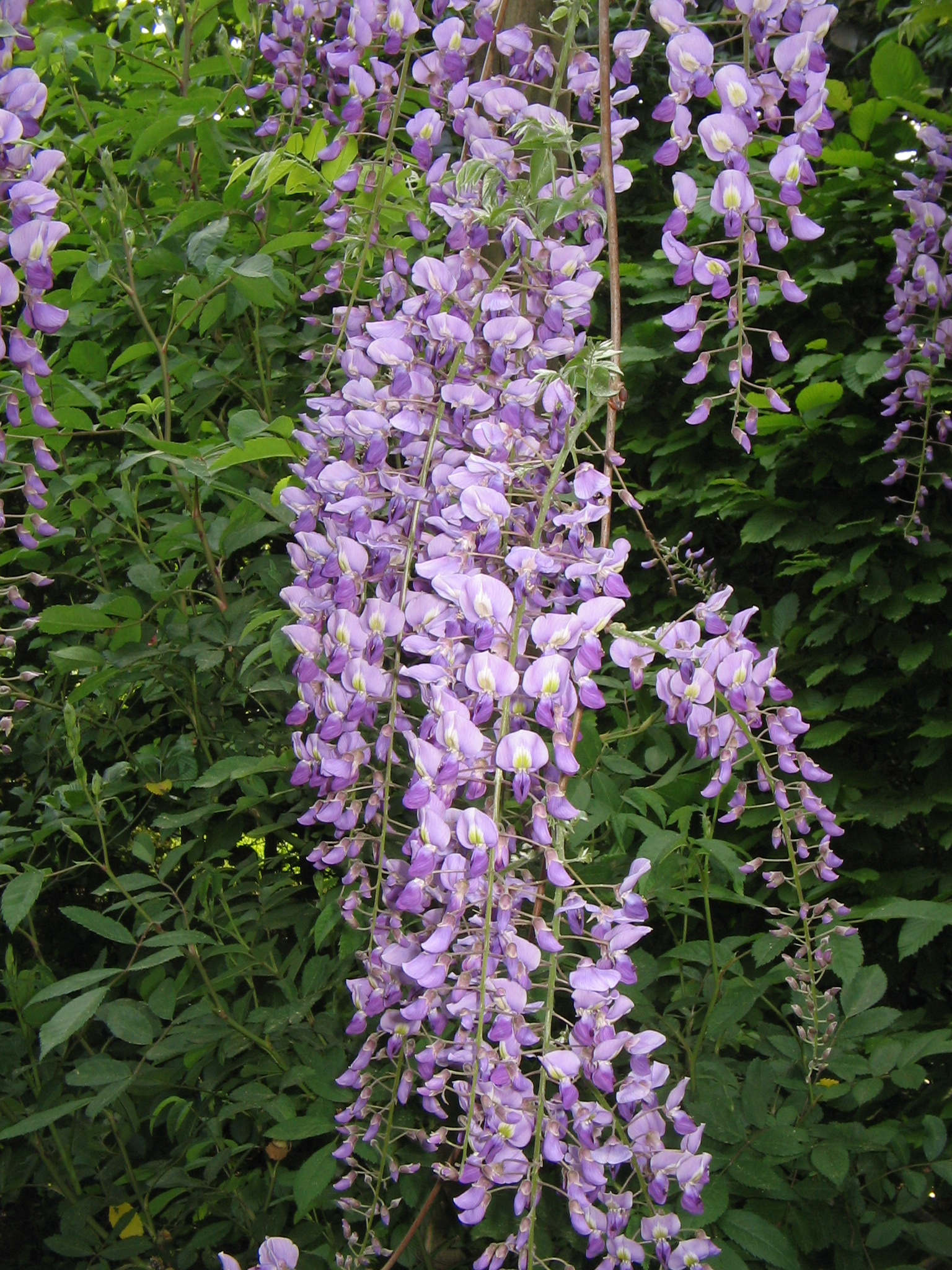 Wisteria floribunda